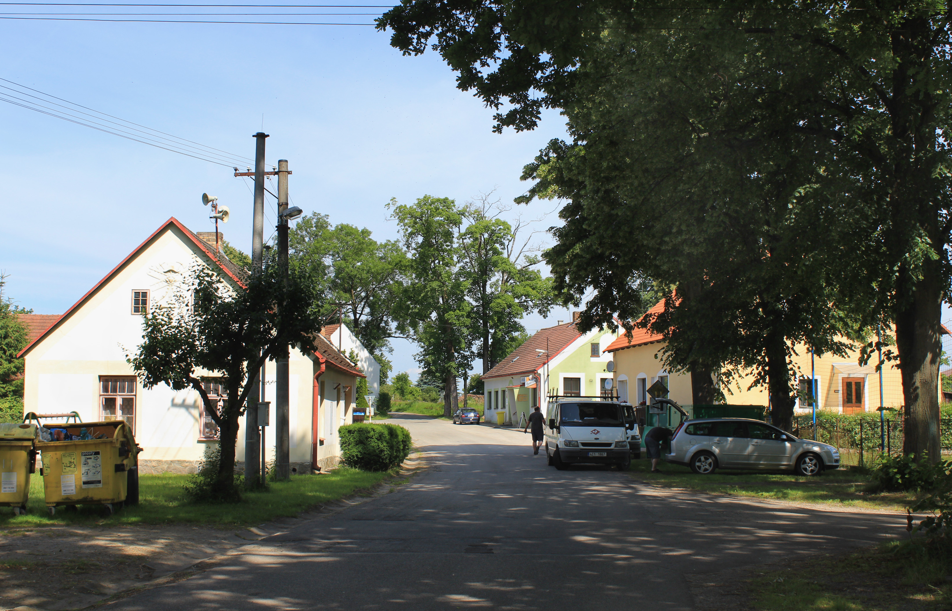 Main street in Polště village, Czech Republic.